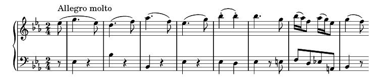 Made using Lilypond. Beethoven died in 1827 and his music is in the public domain.